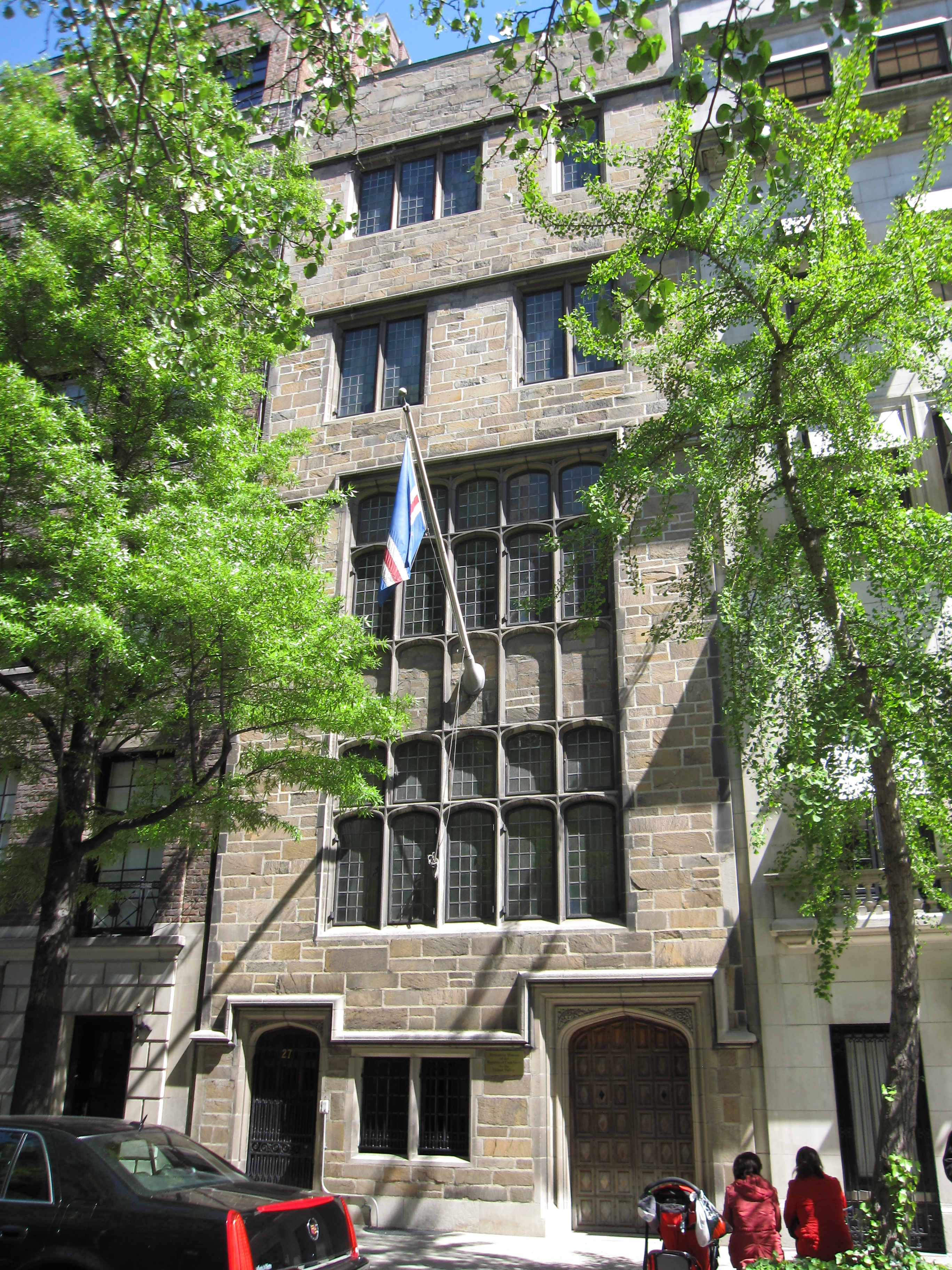 The former Lucretia Lord Strauss House houses today the Permanent Mission of Cape Verde to the United Nations at 27 East 69th Street (Manhattan).